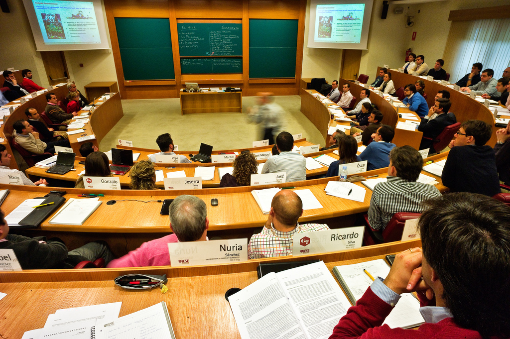 View of lecture room at the business school IESE. This photograph can be used for publications, including this copyright statement: “©PromoMadrid, author Alfredo Urdaci”. Esta fotografía puede usarse en publicaciones, incluyendo la declaración “©PromoMadrid, autor Alfredo Urdaci”.